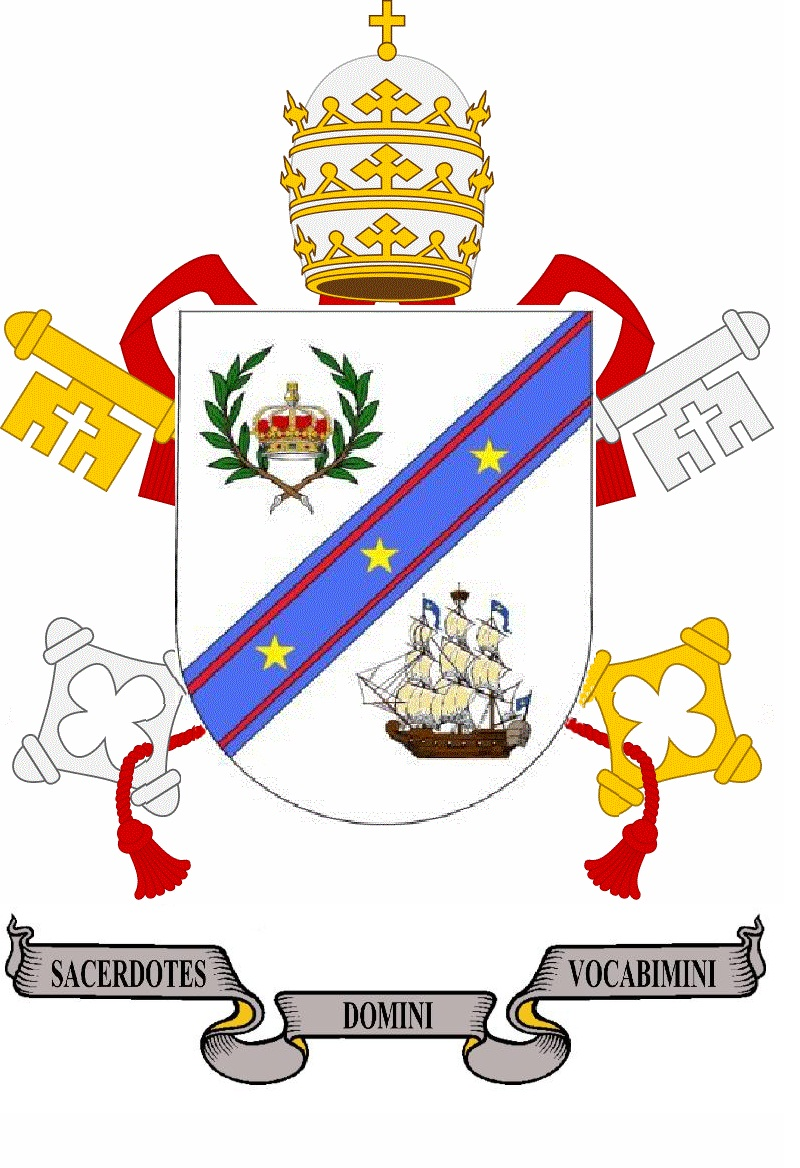 This is a representation of the Coat of Arms of Pontificio Collegio Filippino in Rome: Argent: a fess sinister Azure charged with three mullets Or in between perforation Gules; in Chief a crown proper of Our Lady of Peace and Good Voyage framed by olive wreath of peace; in base a Spanish Galleon afloat proper. The shield is surmounted by the Papal Tiara and set against the keys Or and argent in saltire position, pointing upward. These, being the symbol of the authority of Roman Catholic Pope,signify that the Pontificio Collegio Filippino is a Church institution of Pontifical rights, i.e., functions by the authority of the Supreme Pontiff of the Universal Church. The following Commons image was used to create this image: Coat of Arms of Pope Pius IX by alekjds